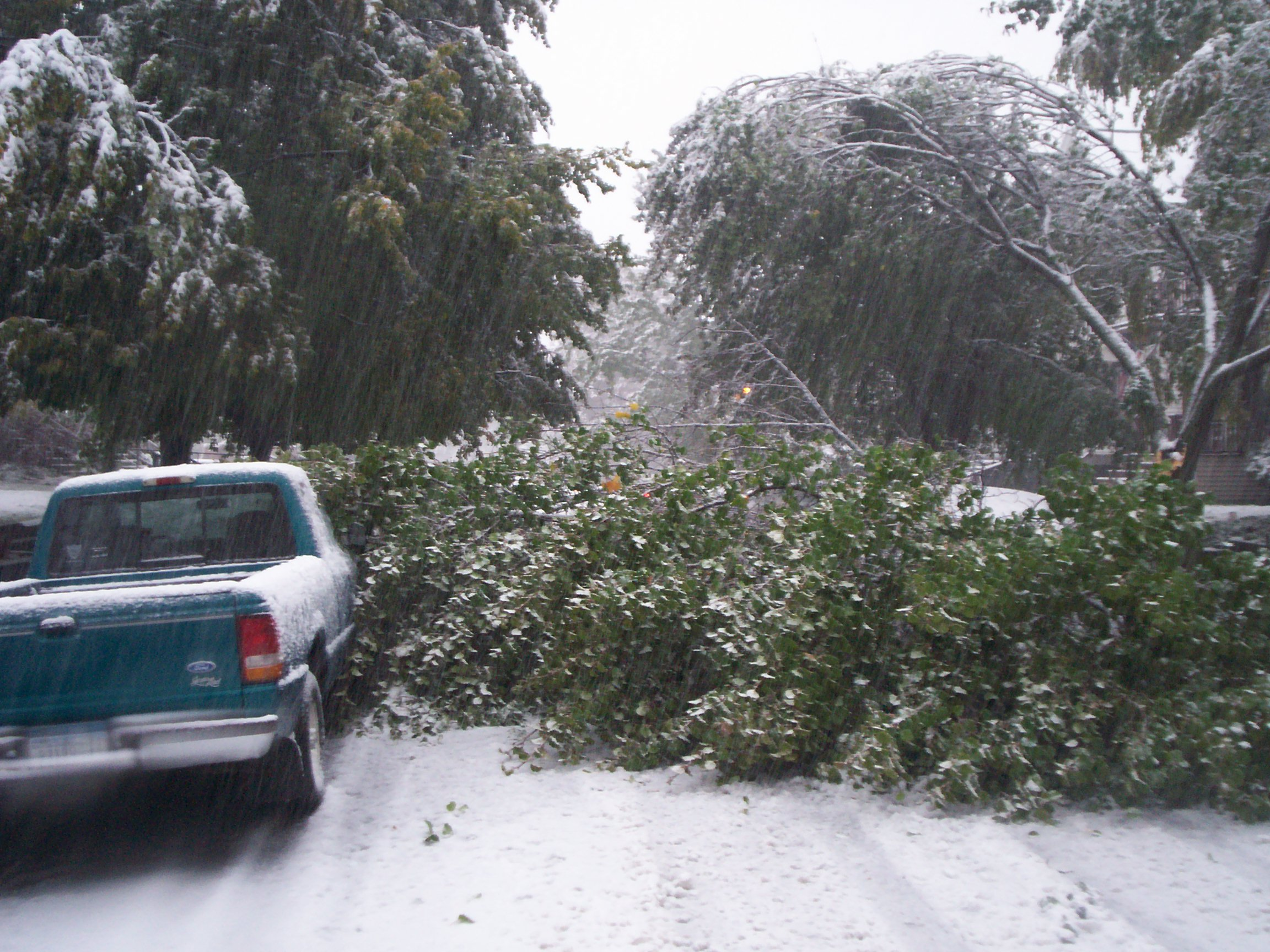 Image: A tree limb falls onto a truck on Granger Place in Buffalo during the Friday the 13, 2006 lake effect snow storm. Source: I am the author of this image.